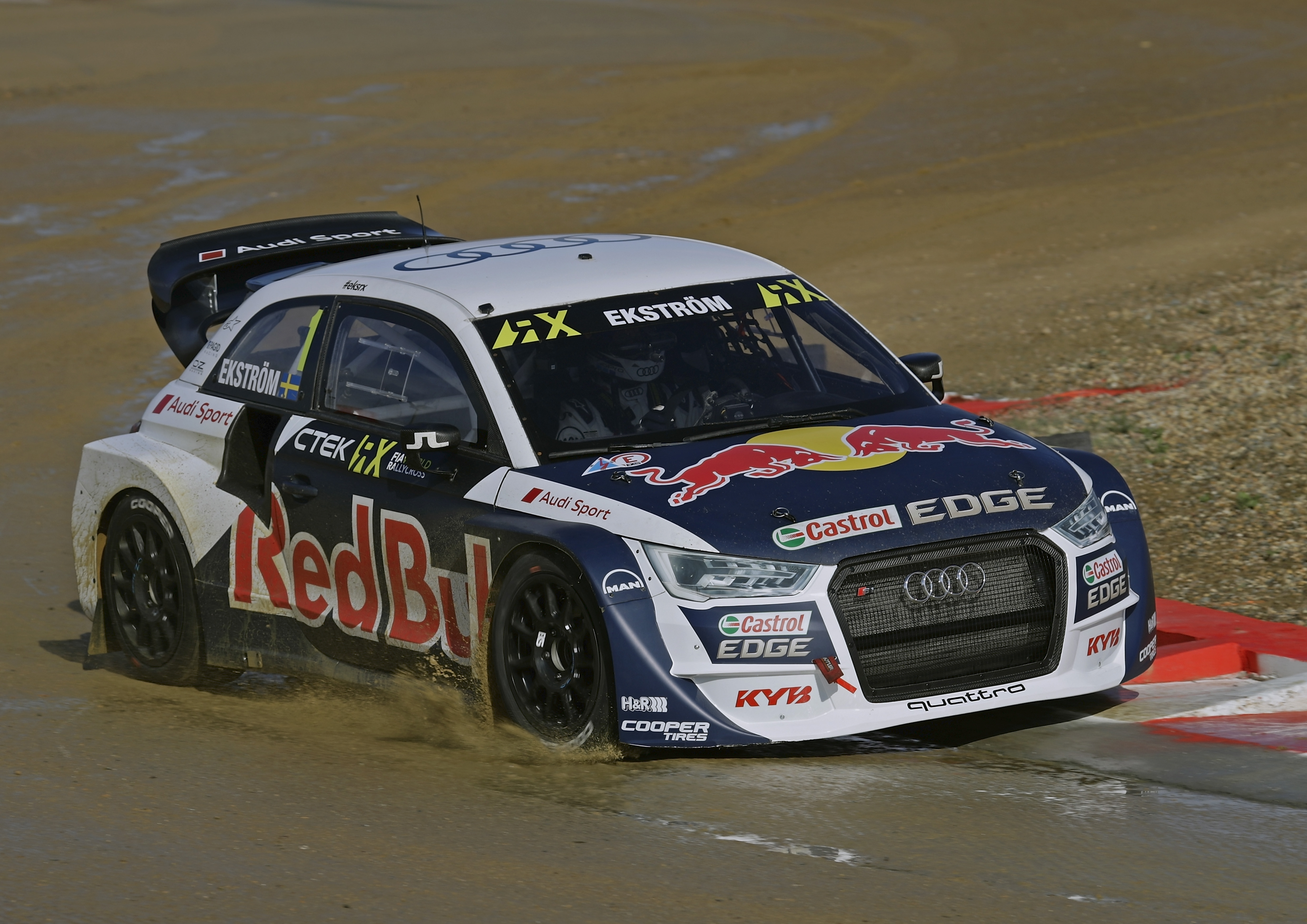 2017 FIA World Rallycross Championship // Round 09, Lohéac // Credit: EKS/Bodo Kräling